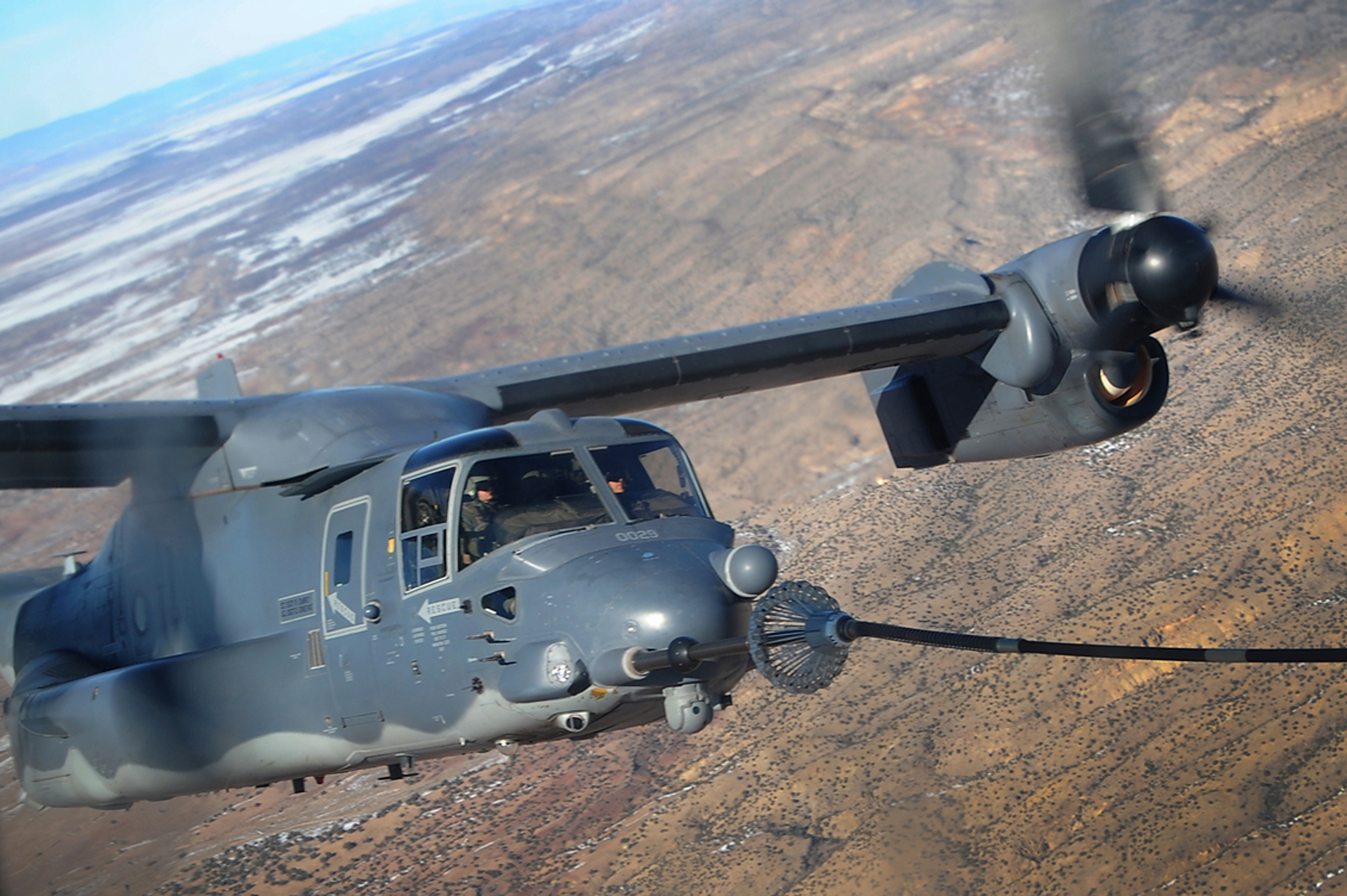 A 71st Special Operations Squadron CV-22 Osprey receives fuel from a 522nd Special Operation Squadron MC-130J Combat Shadow II over New Mexico on Jan. 4, 2012. The 71st Special Operations Squadron is located at Kirtland Air Force Base, N.M., and conducts air refueling training with members of the 522nd at Cannon Air Force Base, N.M.